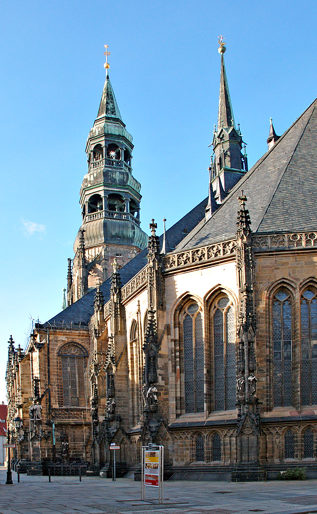 This image shows the Church of Mary (Marienkirche) in Zwickau, Germany.